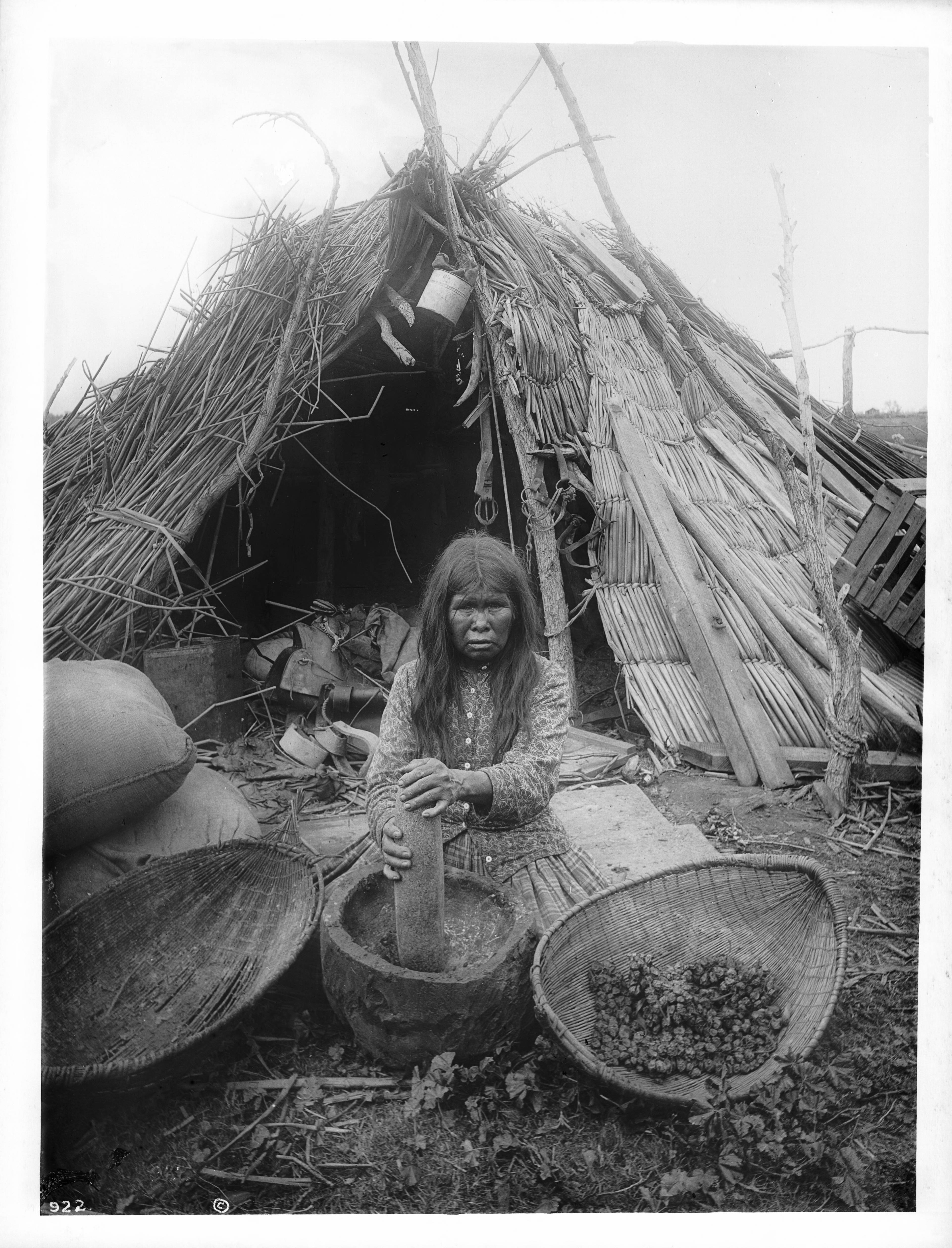 Paiute indian woman grinding acorns for flour, Lemoore, Kings County, ca.1900 Photograph of Paiute indian woman grinding acorns for flour, Lemoore, Kings County, ca.1900. She is sitting in front of a grass hut. Several bags and baskets are sitting nearby. She seems to be using an oblong rock or short fat wooden implement to pound the acorns in a hollowed-out stump or bowl. Call number: CHS-922 Legacy record ID: chs-m14734; USC-1-1-1-13951 Photographer: Dove, Adam Filename: CHS-922 Coverage date: circa 1900 Part of collection: California Historical Society Collection, 1860-1960 Type: images Geographic subject (city or populated place): Lemoore Repository name: USC Libraries Special Collections Accession number: 922 Microfiche number: 1-60- Archival file: chs_Volume90/CHS-922.tiff Part of subcollection: Title Insurance and Trust, and C.C. Pierce Photography Collection, 1860-1960 Repository address: Doheny Memorial Library, Los Angeles, CA 90089-0189 Geographic subject (country): USA Format (aacr2): 2 photographs : glass photonegative, photoprint, b&w ; 22 x 17 cm. Rights: Digitally reproduced by the USC Digital Library; From the California Historical Society Collection at the University of Southern California Subject (adlf): tribal areas Project: USC Repository Contributing entity: California Historical Society Date created: circa 1900 Publisher (of the digital version): University of Southern California. Libraries Format (aat): photographic prints; photographs Geographic subject (state): California Subject (file heading): Indians -- Paiute Format: glass plate negatives Access conditions: Send requests to address or e-mail given. Phone (213) 821-2366; fax (213) 740-2343. Geographic subject (county): Kings Subject (lcsh): Paiute Indians; Clothing and dress; Food; Acorns; Indians of North America; Dwellings; Indians Subject: Paiute Indians